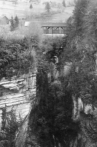 Hohe Brücke, a wooden Bridge in canton Obwalden, Switzerland, 1893-1943